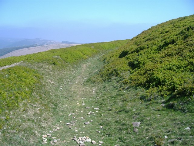 Hill fort ditch, Twmbarlwm, near to Risca, Caerphilly/Caerffili, Great Britain. Surrounding what is believed to have been an iron-age settlement.